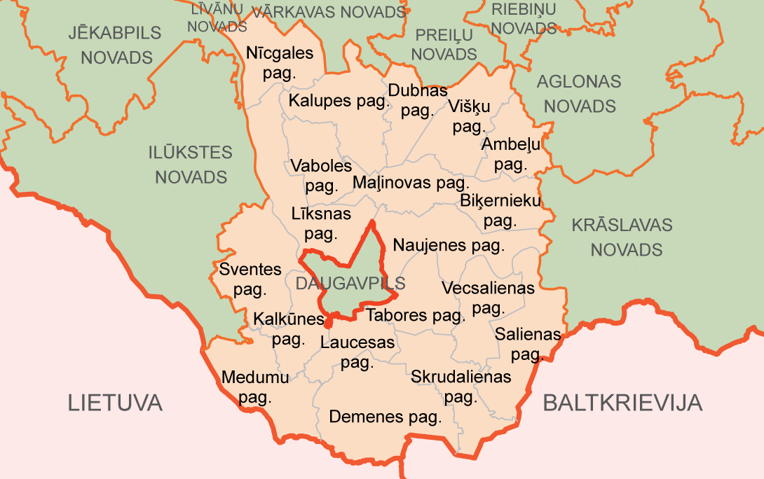 Administrative devision of the Daugavpils municipality